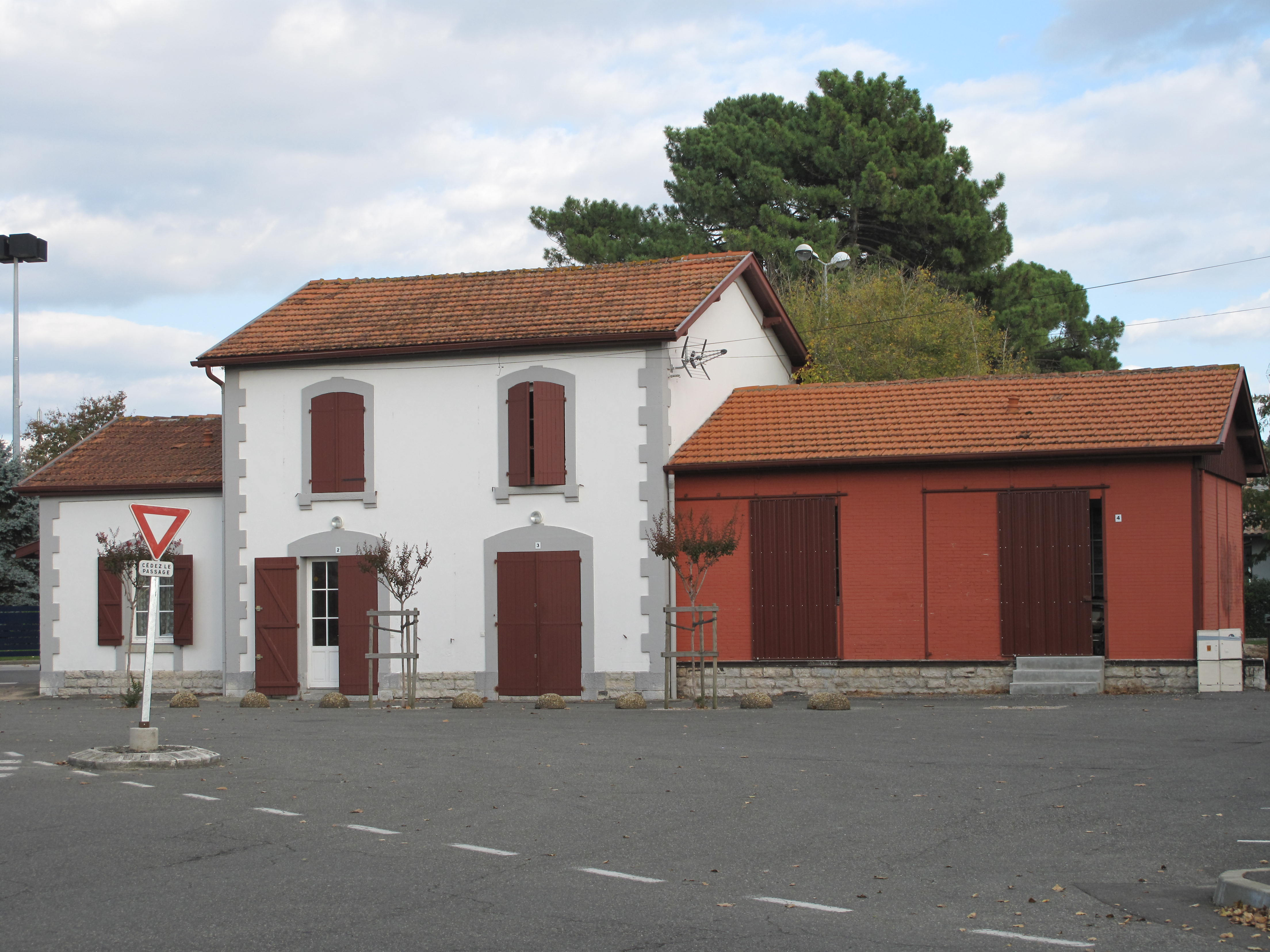 Disused (since ca 1950) train station of Capbreton (Landes, France)